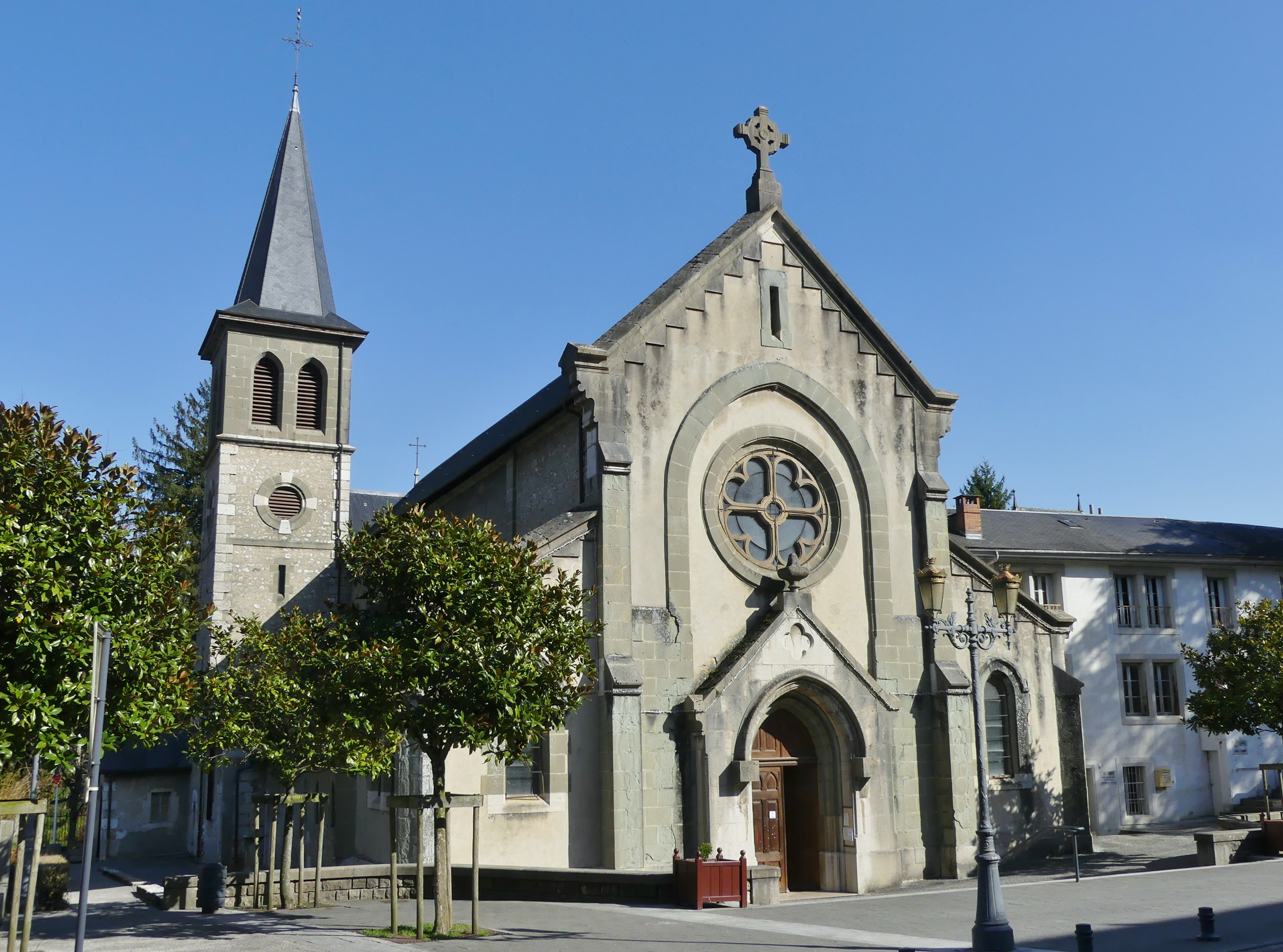 Sight of the église Saint-Laurent church of Le Bourget-du-Lac in Savoie, France.